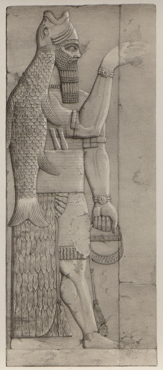 A probable image of an Apkallu For context this bas-relief was located next to the one given at File:Chaos_Monster_and_Sun_God.png - for more details including sources and further reading see that page